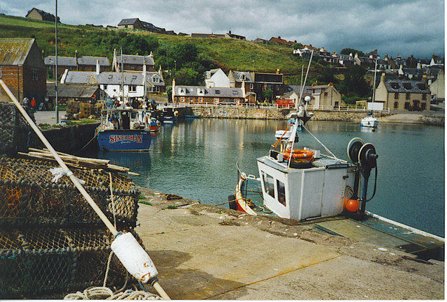 Fishing Boats at Gourdon. This fishing village is sheltered by the steep hillside to the west. Gourdon is also sheltered from the main road traffic which passes by above the village.